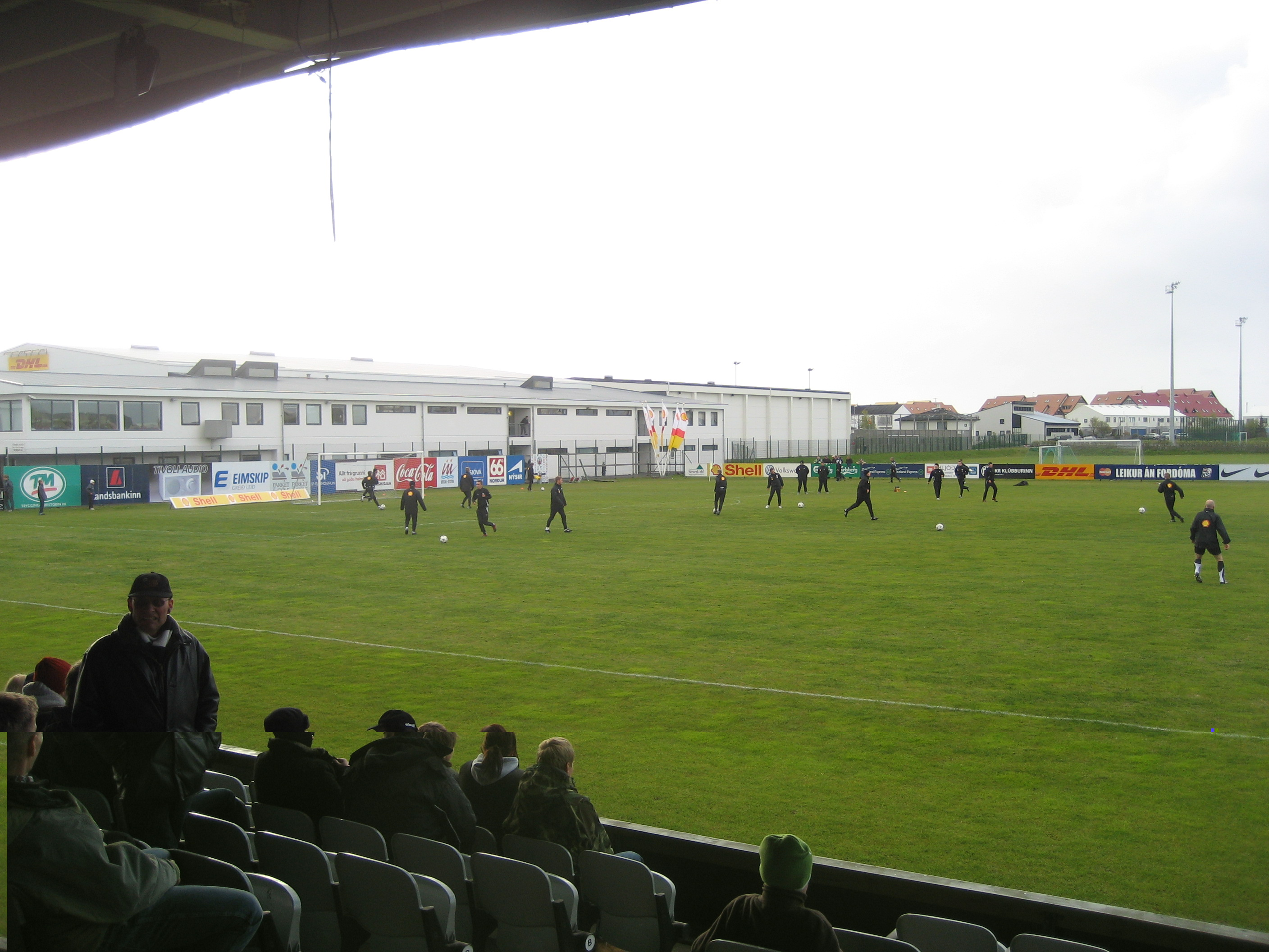 KR-Völlurinn (The KR stadium) is located in the west side of Reykjavík. On the picture KR players are preparing for a game against Breiðablik.